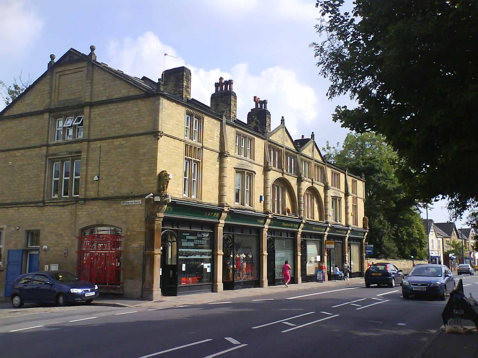 This image is in the public domain. Please ignore flickr's cc-BY license for this photo, I require no attribution for any use of this image.